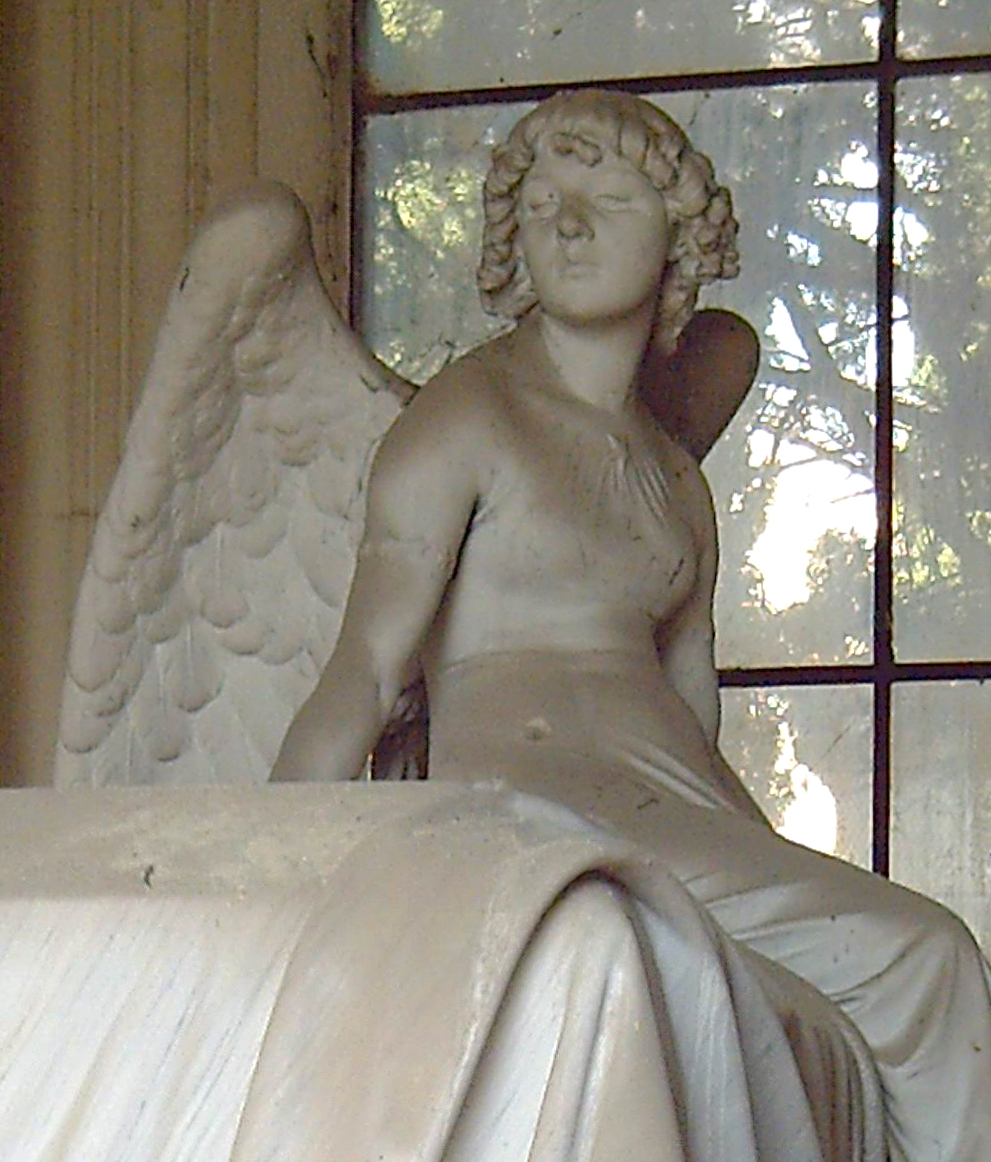 Detail of the interior of De La Gándara family's pantheon, at San Isidro graveyard in Madrid (Spain). Sculpture was made by Giulio Monteverde (1837–1917). Pantheon was designed by architect Alejandro del Herrero and built at the end of the 19th century.